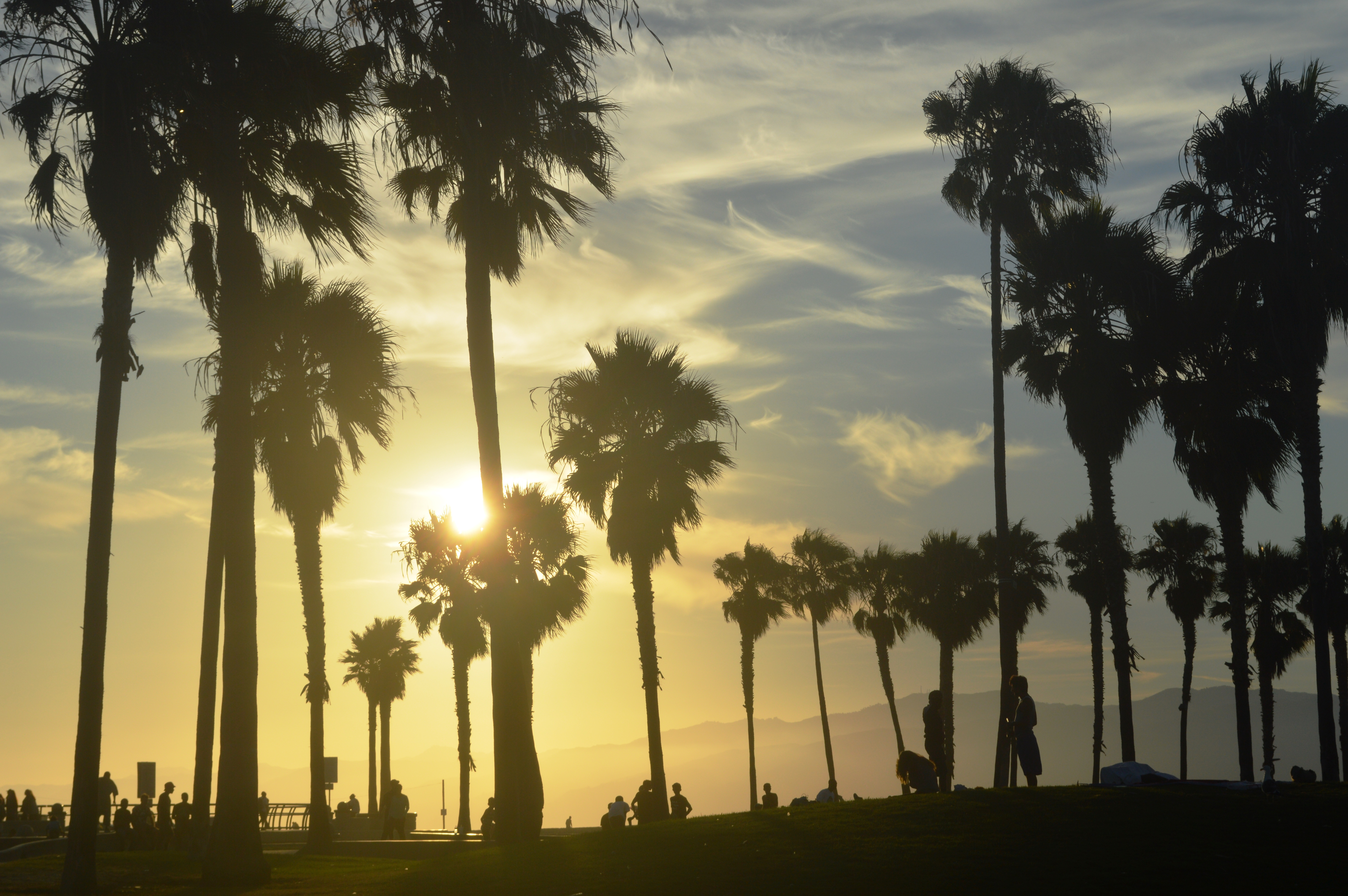 Looking at the palms along Venice Beach